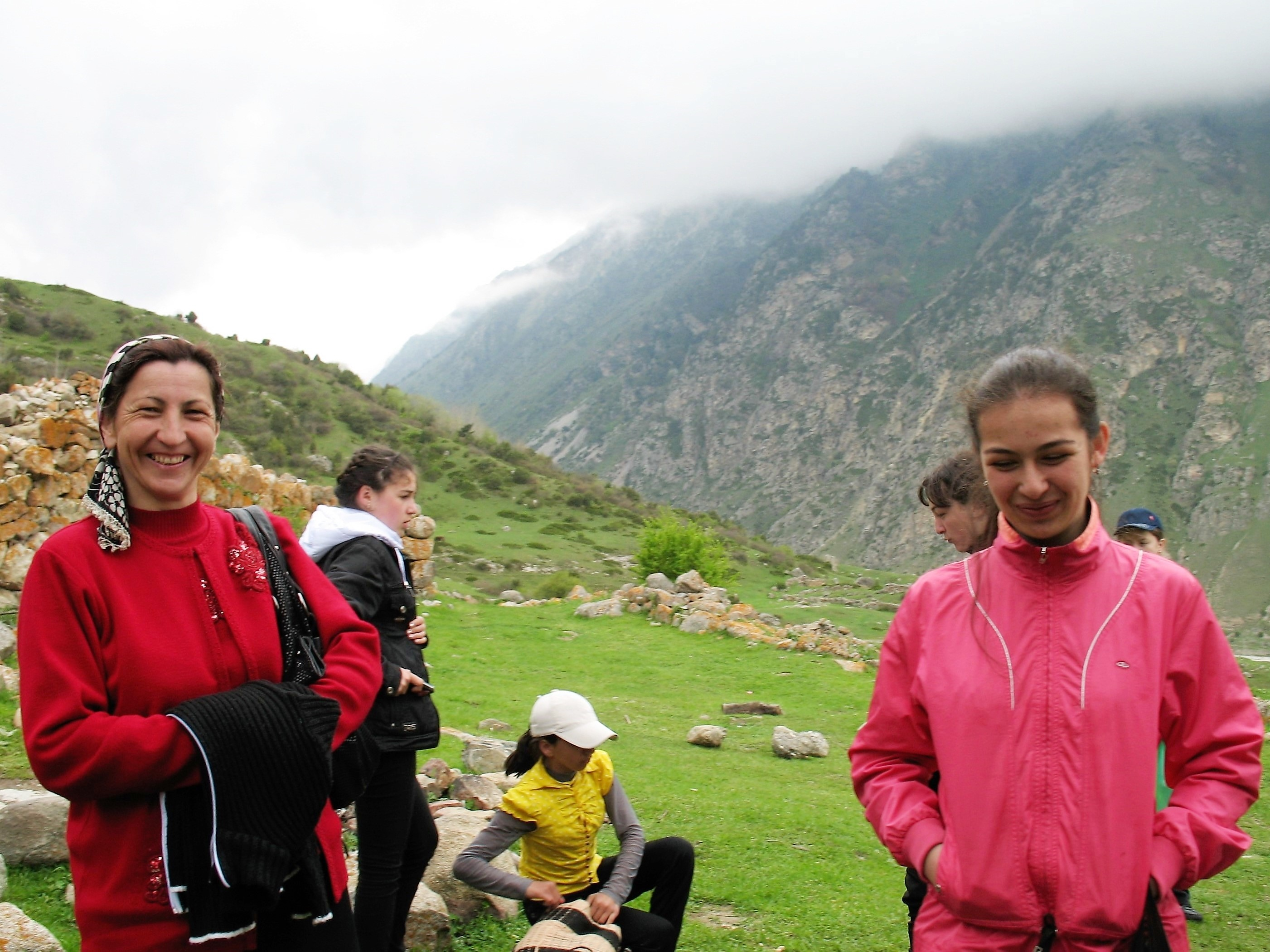 People from Verkhnyaya Balkaria. The teacher and her pupils